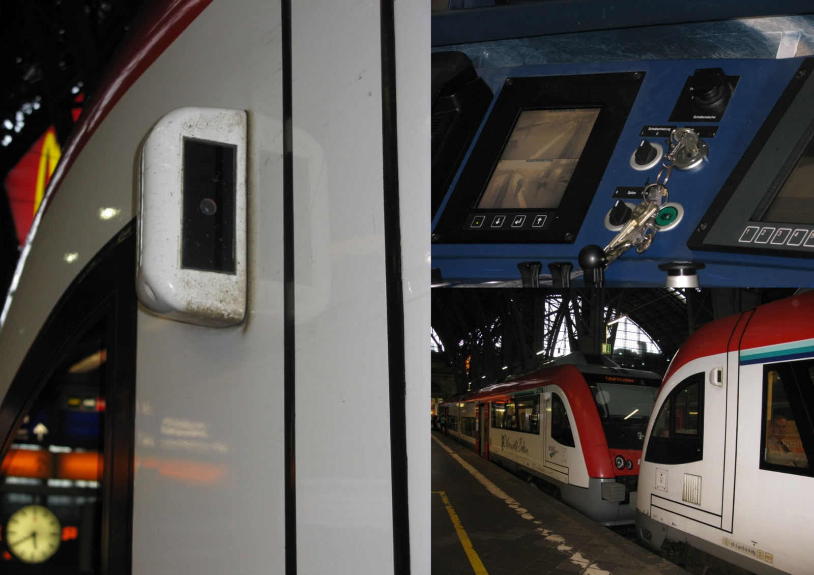 Video cameras on a Bombardier Itino - Images of leading and rear cabin are displayed in the drivers cabin (upper right image)